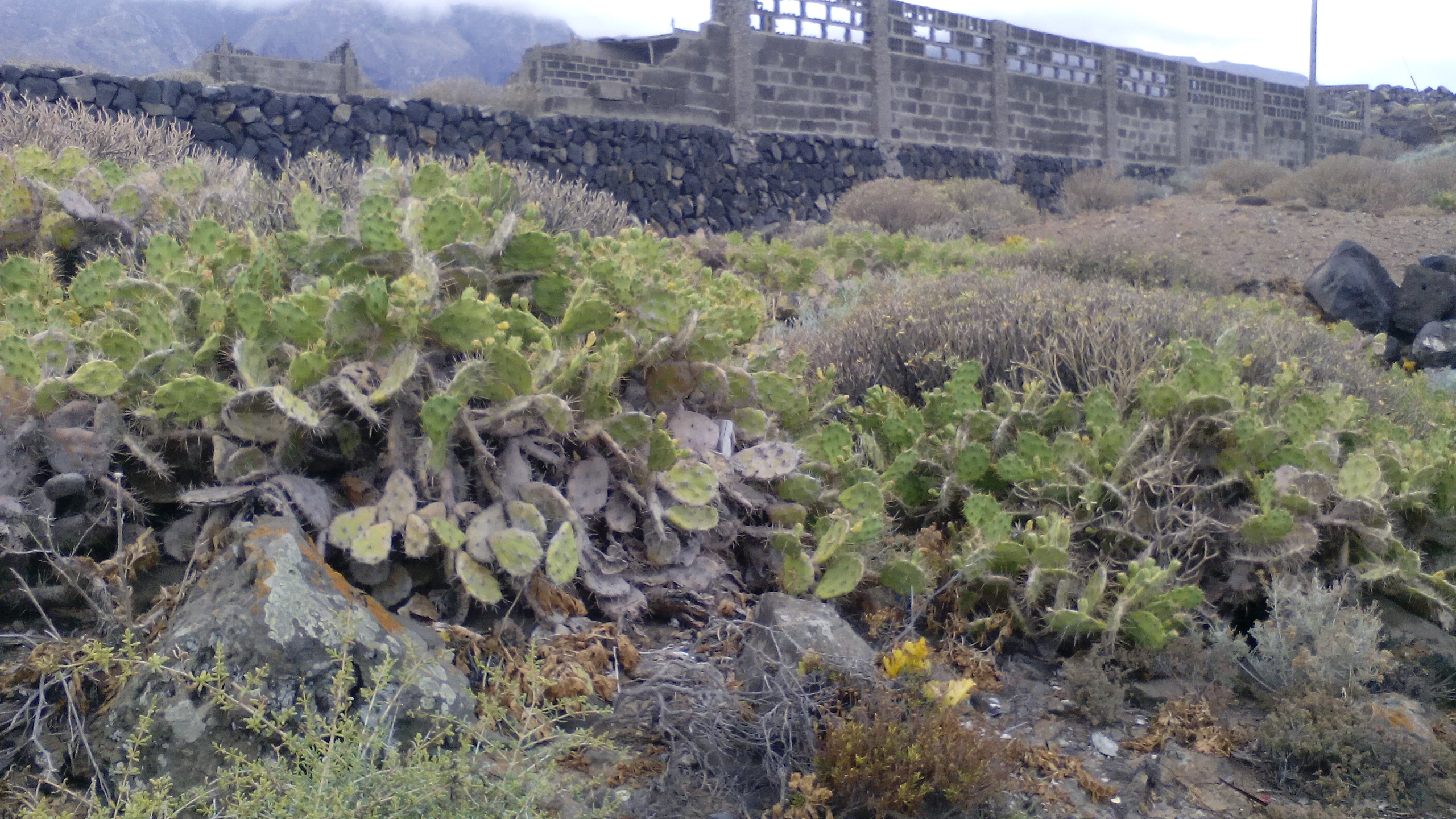 Although Opuntia is considered an invasive species, it provides protection from human traffic, wind and water erosion to the native Tabaiba allowing both to grow at higher density that eiter alone.